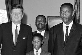 President John F. Kennedy (center) visits with Myrlie Evers (far left), widow of civil rights leader, Medgar Evers. Also pictured: Reena and Darrell Evers, children of Medgar and Myrlie; Charles Evers (far right), brother of Medgar. An unidentified man stands in back at right. Oval Office, White House, Washington, D.C.